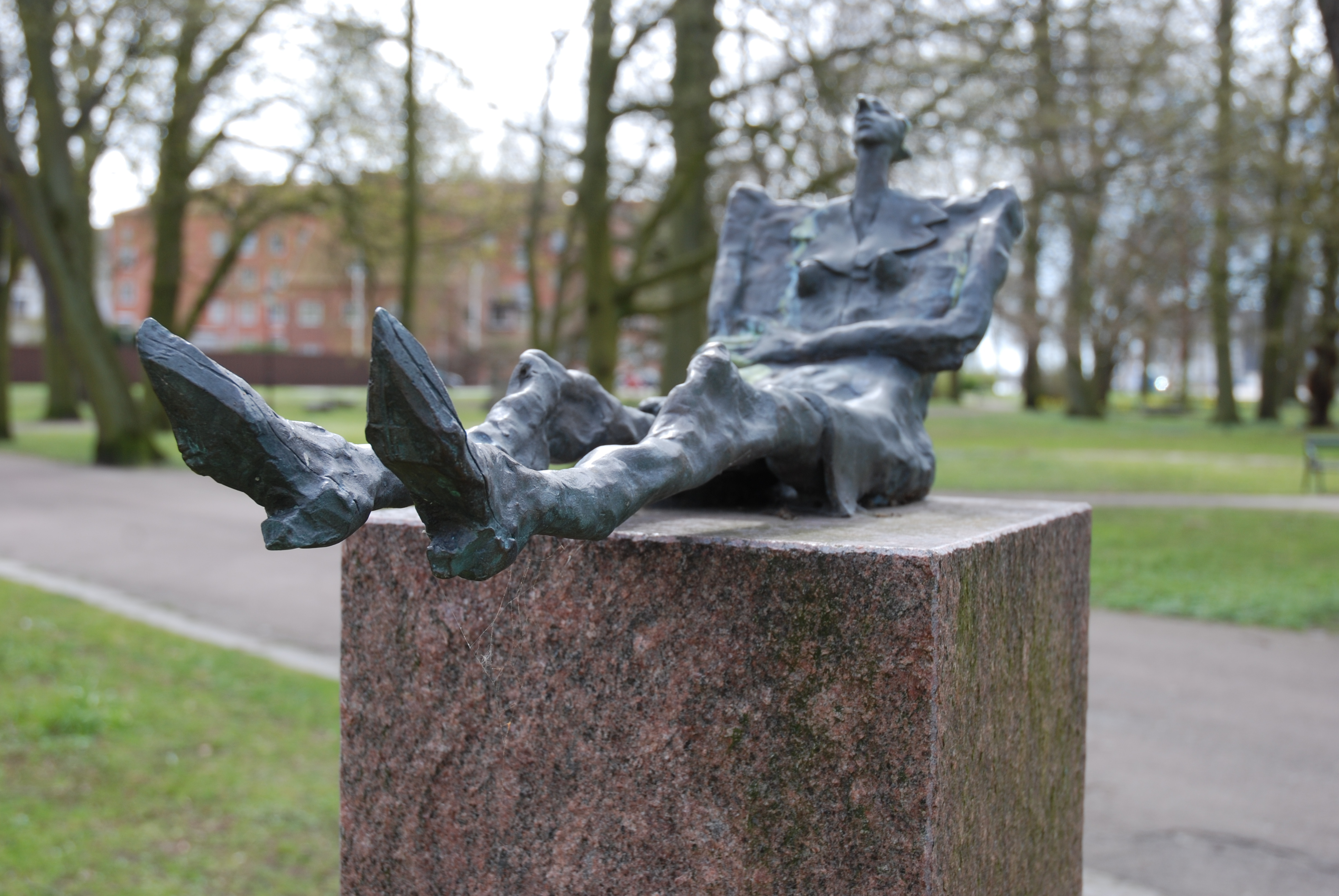 Detail of Jan Janczak´s Hon och han (She and he), Landskrona, Sweden